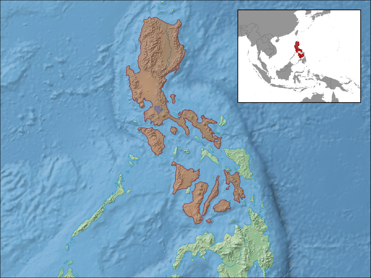 geographic distribution of Brachymeles boulengeri